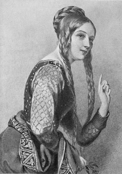 Eleanor of Aquitaine, queen consort of Henry II of England.